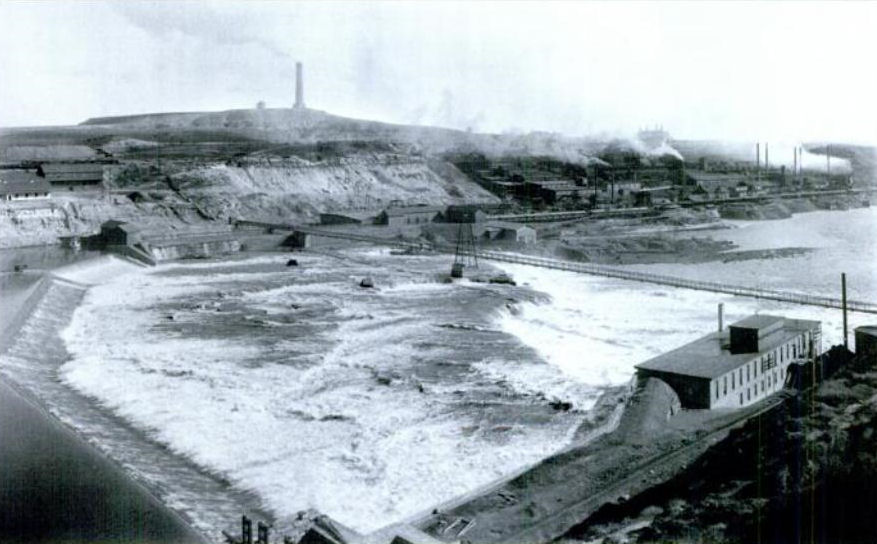 Looking northeast at Black Eagle Dam on the Missouri River in Great Falls, Montana, United States. The original powerhouse built on the south bank of the river is just visible at bottom-center. The second powerhouse, built in 1893-1894 just downstream of the existing south bank powerhouse, is center-left. (Notice the large penstock rising up out of the ground to feed water through the wall of the powerhouse.) The dam itself is in the left of the image. At the dam's northern abutment is the original north bank powerhouse. Downstream of that, just behind the falls and sitting on what appears to be a spit of land, is the second, larger north bank powerhouse (built in 1892). The buildings on the hill are the Boston and Montana Consolidated Copper and Silver Mining Company copper, silver, and zinc smelter. The small smokestack on top of the hill would be replaced by a 506-foot-high "Big Stack" (then the tallest chimney in the world) in 1908.